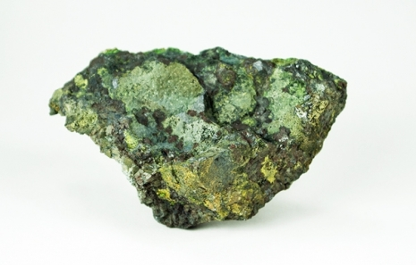 Trevorite, Népouite Locality: Musongati (Musongoti; Colline Musongati), Rutana Province, Burundi Dimensions: 6.2 cm × 3.6 cm × 2.4 cm Trevorite is a very rare iron-rich Spinel Group species and garnierite is a synonym of nepouite, a rare Serpentine Group species. This very rare combination piece is certainly from a most obscure locale and country - Burundi. Musongati is a nickel, cobalt, copper lateritic deposit over a flat-lying, layered intrusion of gabbro, norite, and other mafic-ultramafic rocks (MINDAT). Pale green nepouite appears to be far richer on this specimen, than the black with a green or brown tint trevorite. It's hard to distinquish the two. There are also crusts of a splendent metallic mineral. The colors are far brighter on the back edge of the piece. Probably older material, but no proof. Ex. Jacques Montandon Collection.